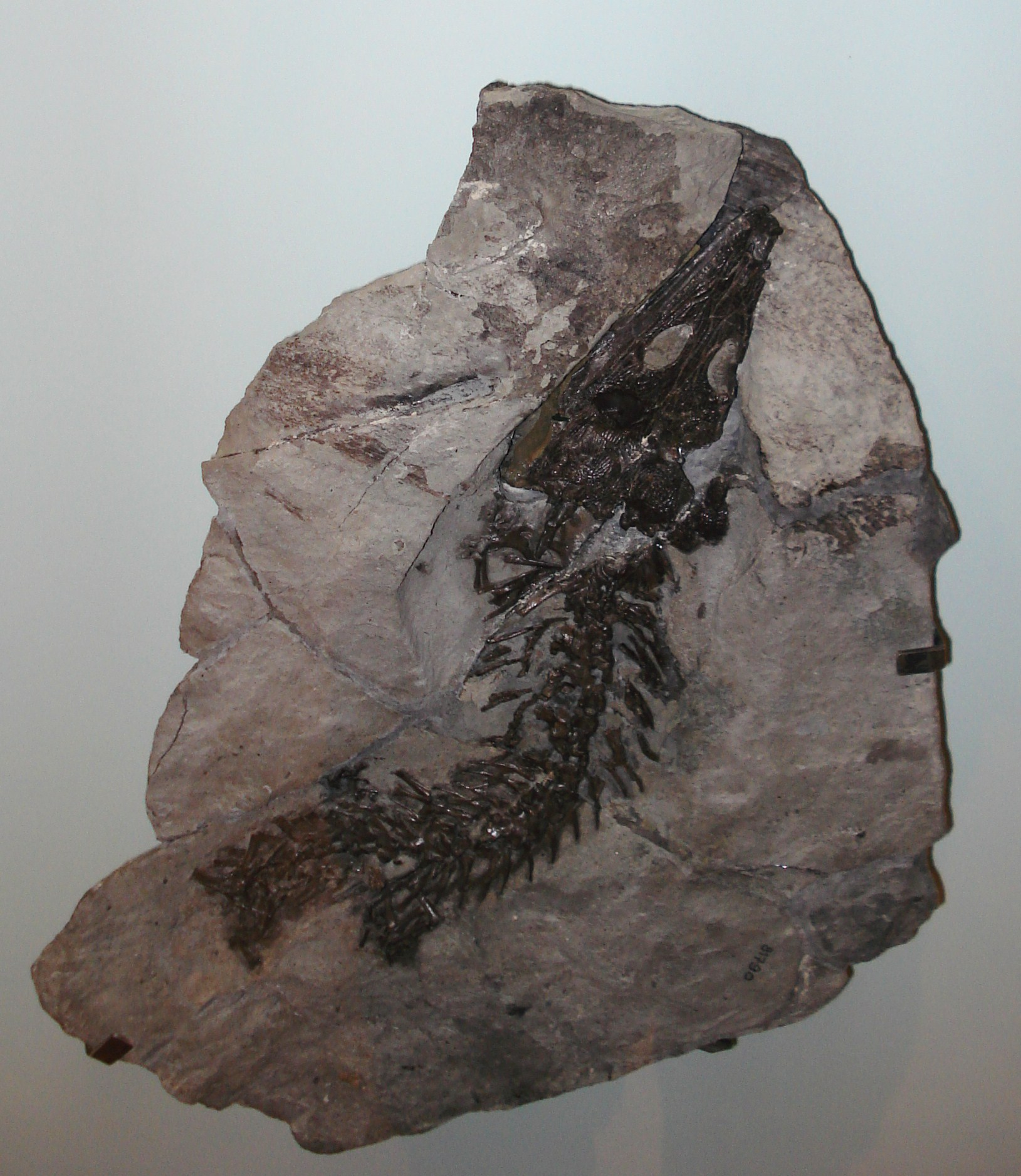 fossil of trematolestes